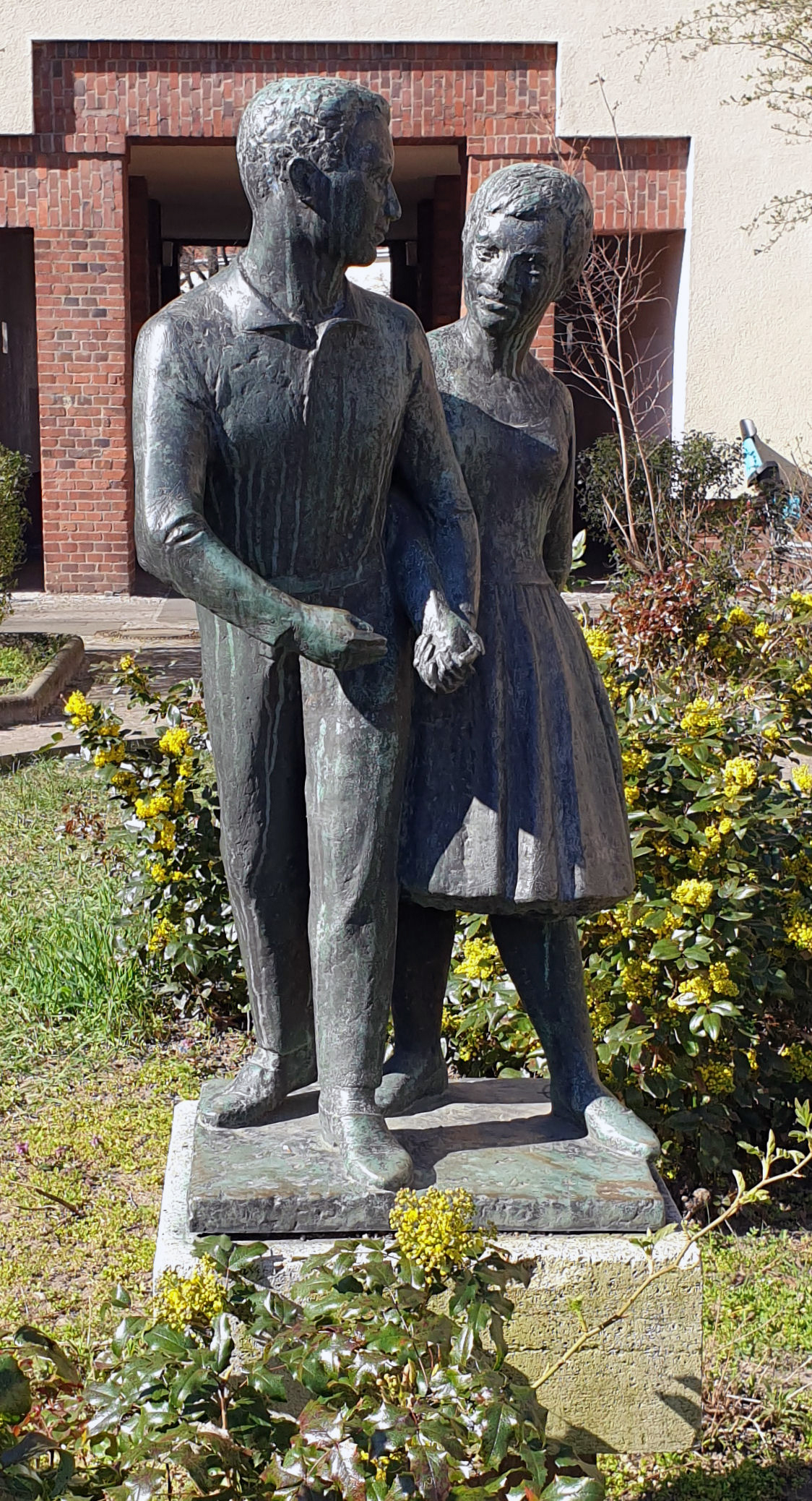 Sculpture,"Junges Paar" by Doris Pollatschek, 1957, Allmersweg 13-14, Berlin-Johannisthal, Germany